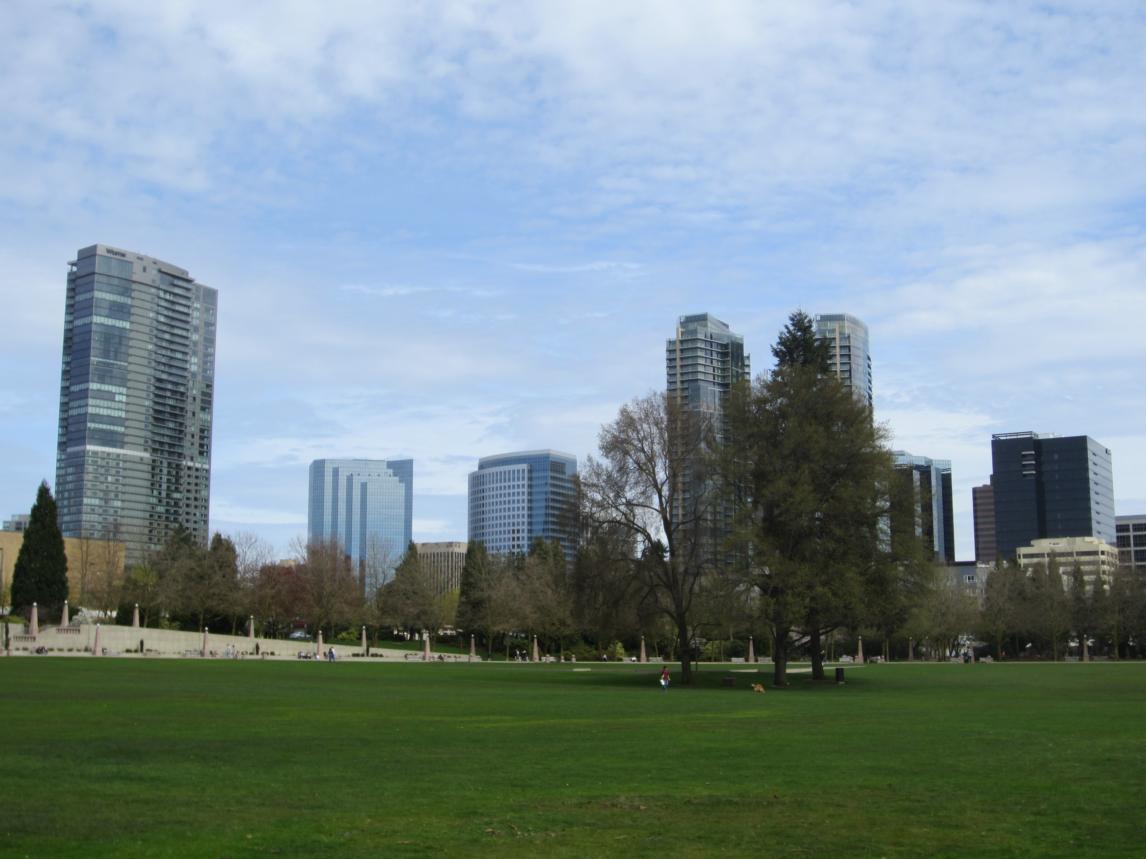 Bellevue Downtown Park in Bellevue, Washington in April 2012